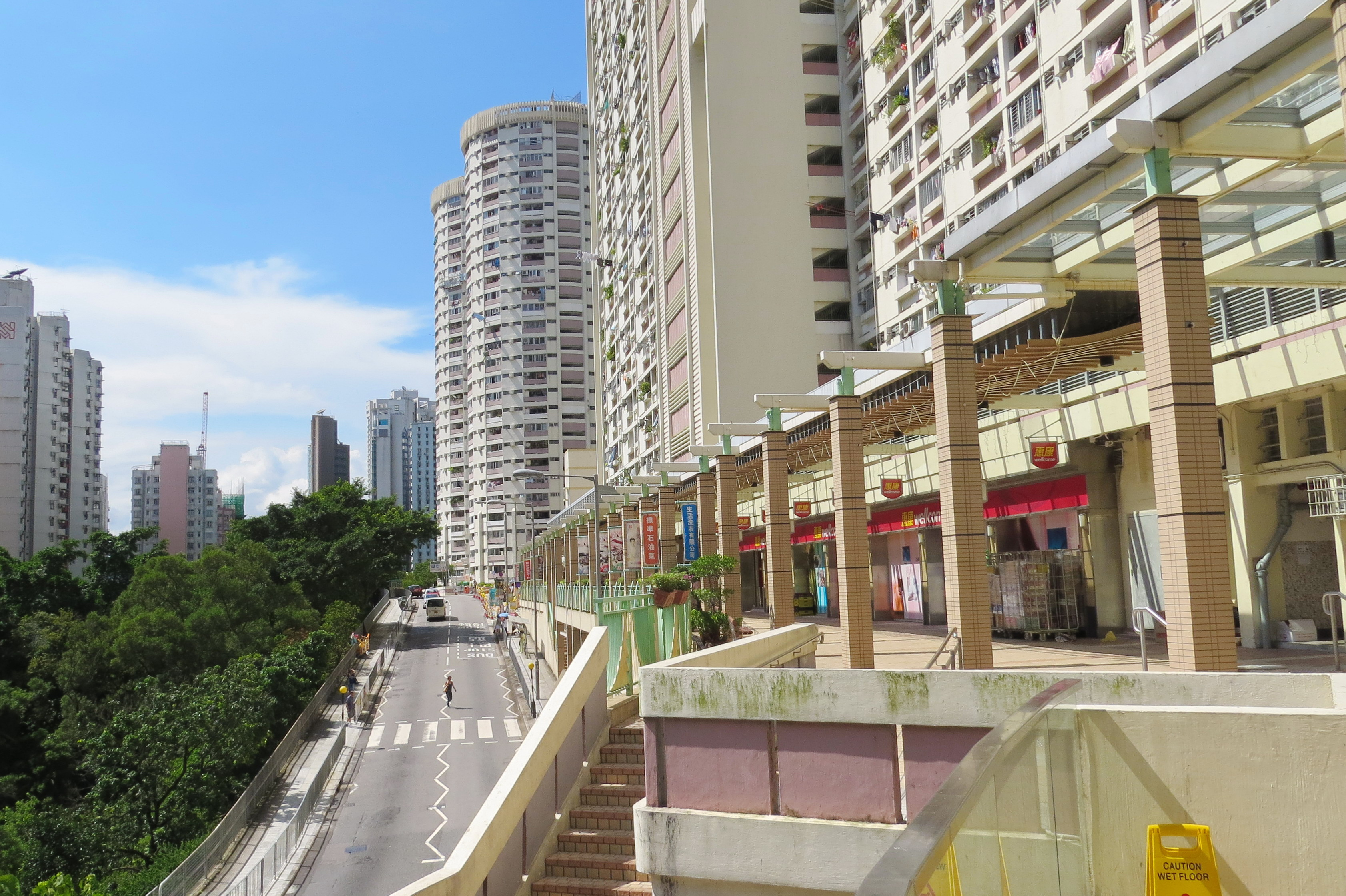 Lai Tak Tsuen and Lai Tak Plaza, Hong Kong.